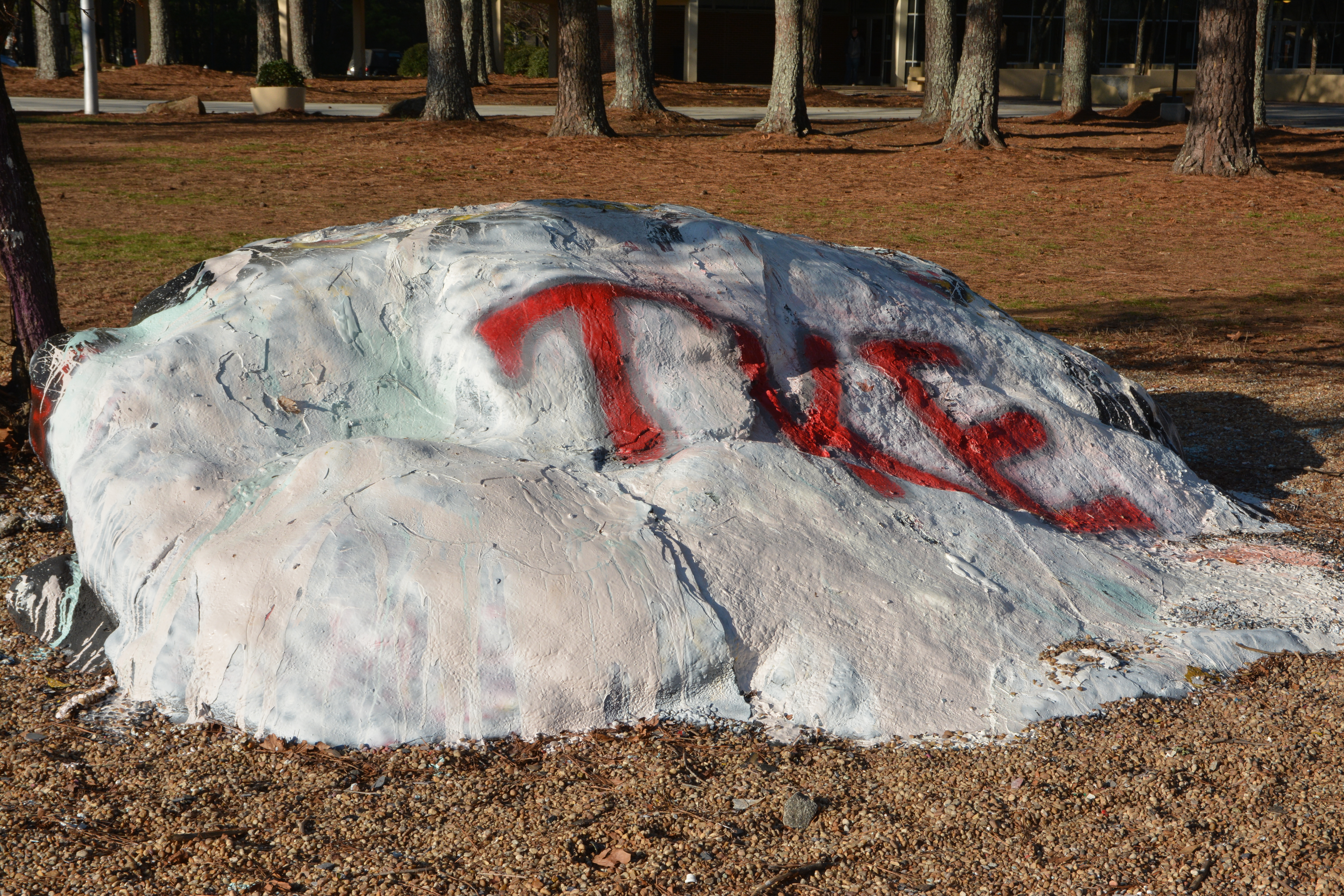 Kennesaw State University, Marietta Campus, The Rock